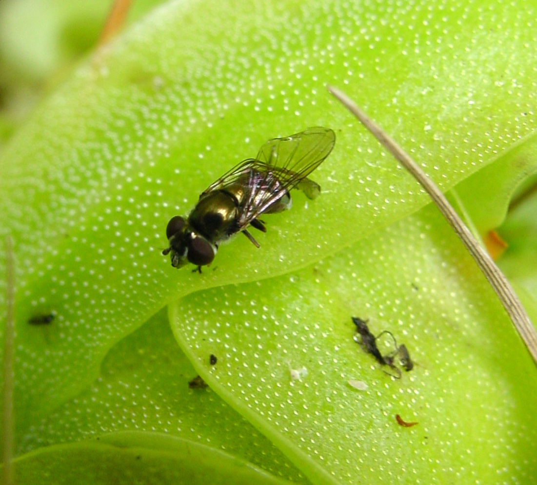 Description: Pinguicula macroceras ssp. notensis with prey (in wild). Picture by: Noah Elhardt